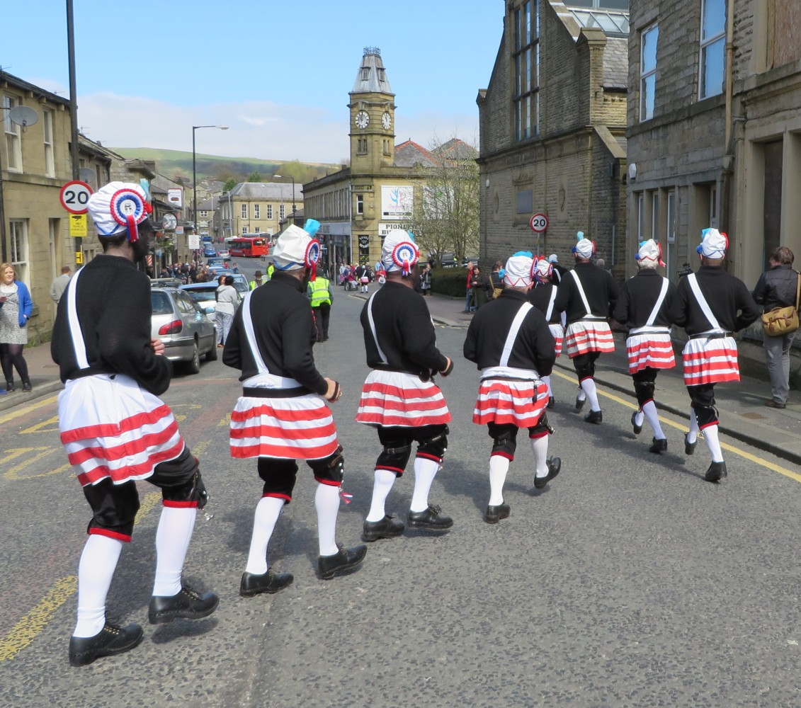 The Easter Saturday Coco-nutters dance in Bacup